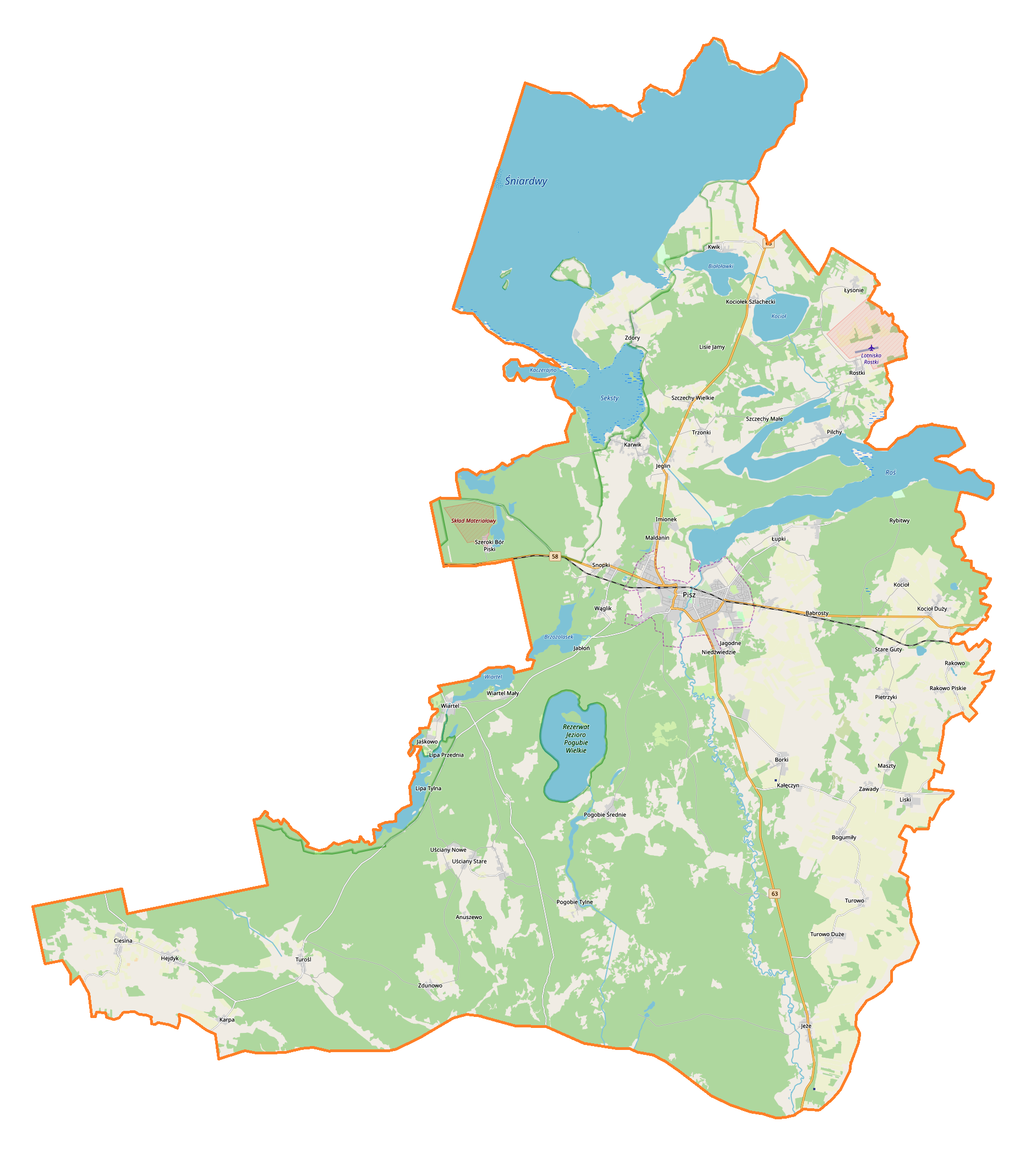 Location map